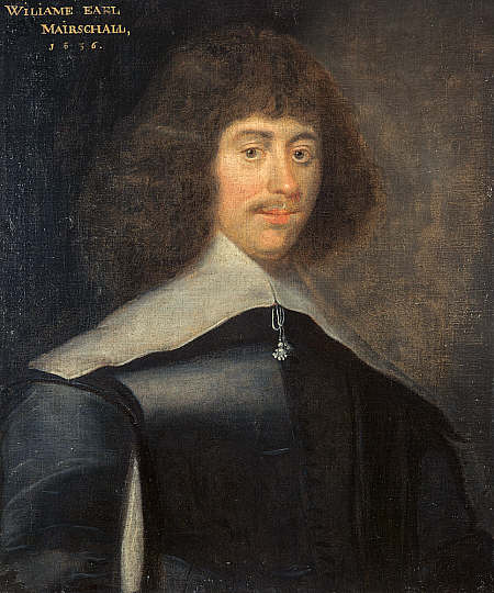 Portrait of William Keith, 7th Earl Marischal (1614-1661)